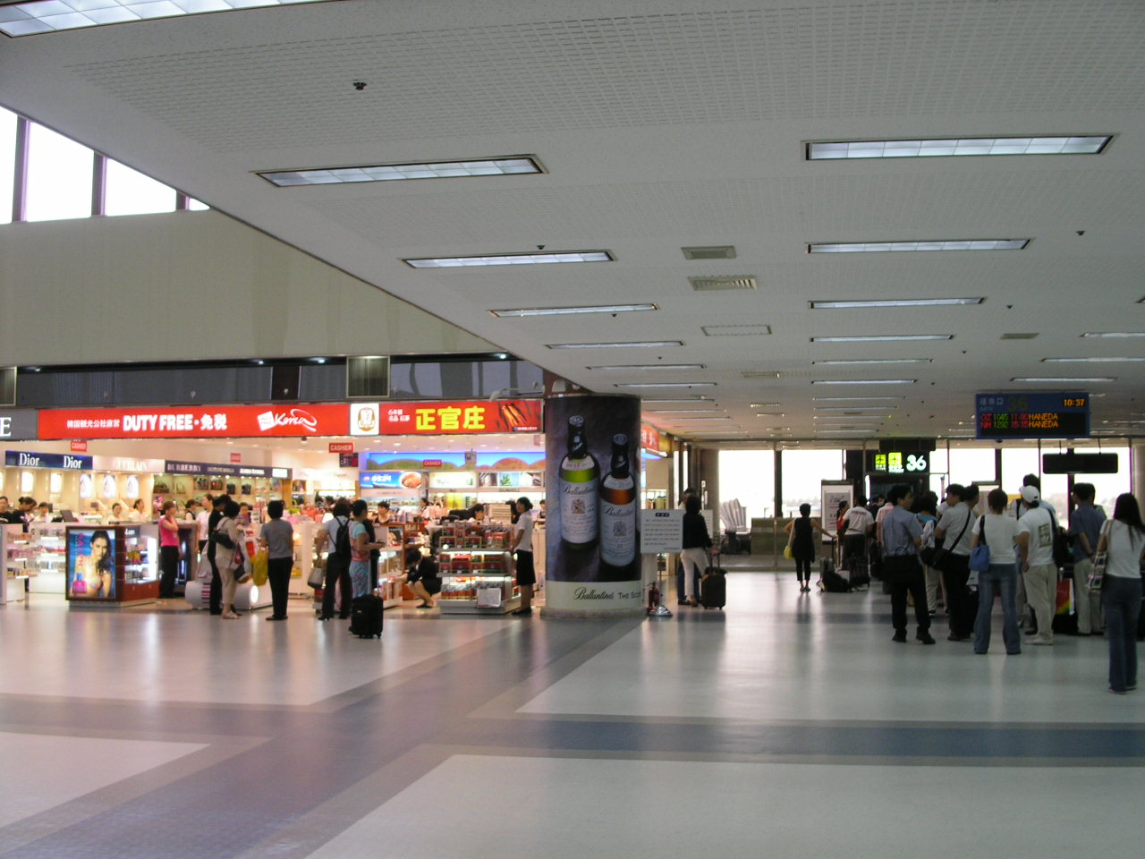 Concourse in International Terminal of Gimpo Airport.